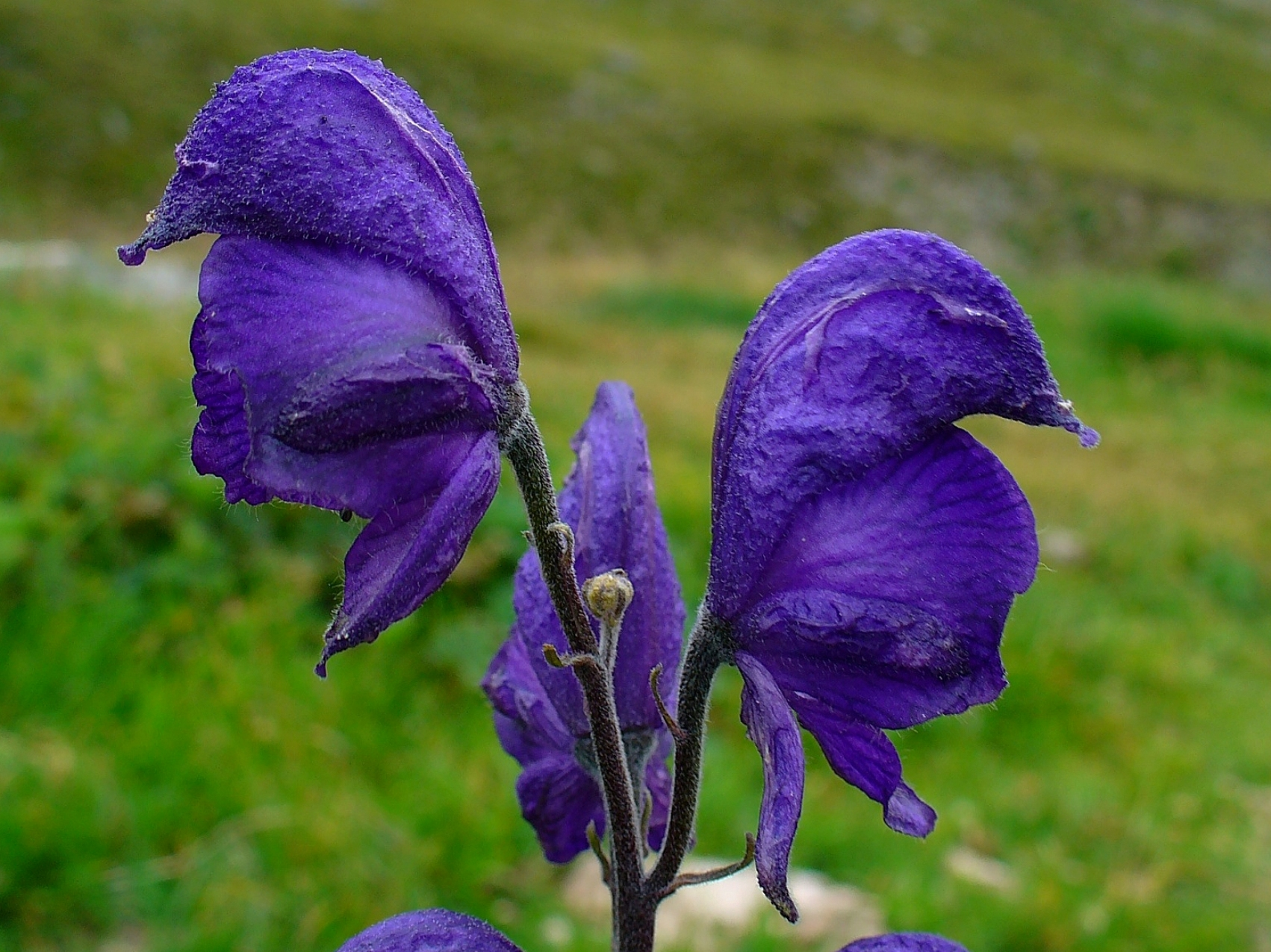 Aconitum napellus, Ranunculaceae, Monkshood, Wolf's Bane, Monk's Blood, Monk's Hood, flowers; Muottas Muragl, Engadin, Switzerland, altitude ca. 2400 m. The root tubers are used in homeopathy as remedy: Aconitum (Acon.)